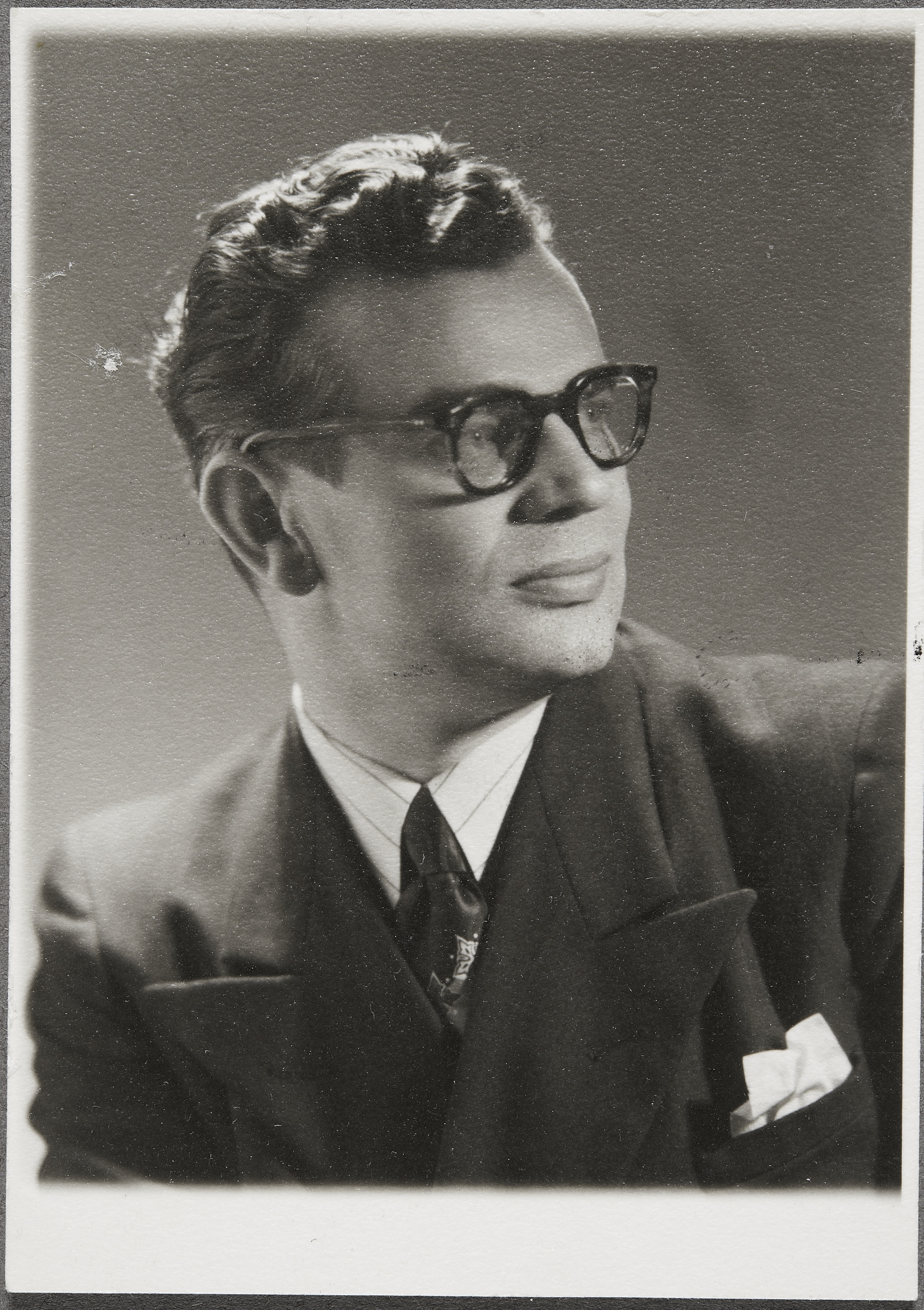 Publicity photograph of the Finnish actor Kalervo Nissilä (1913–1997).